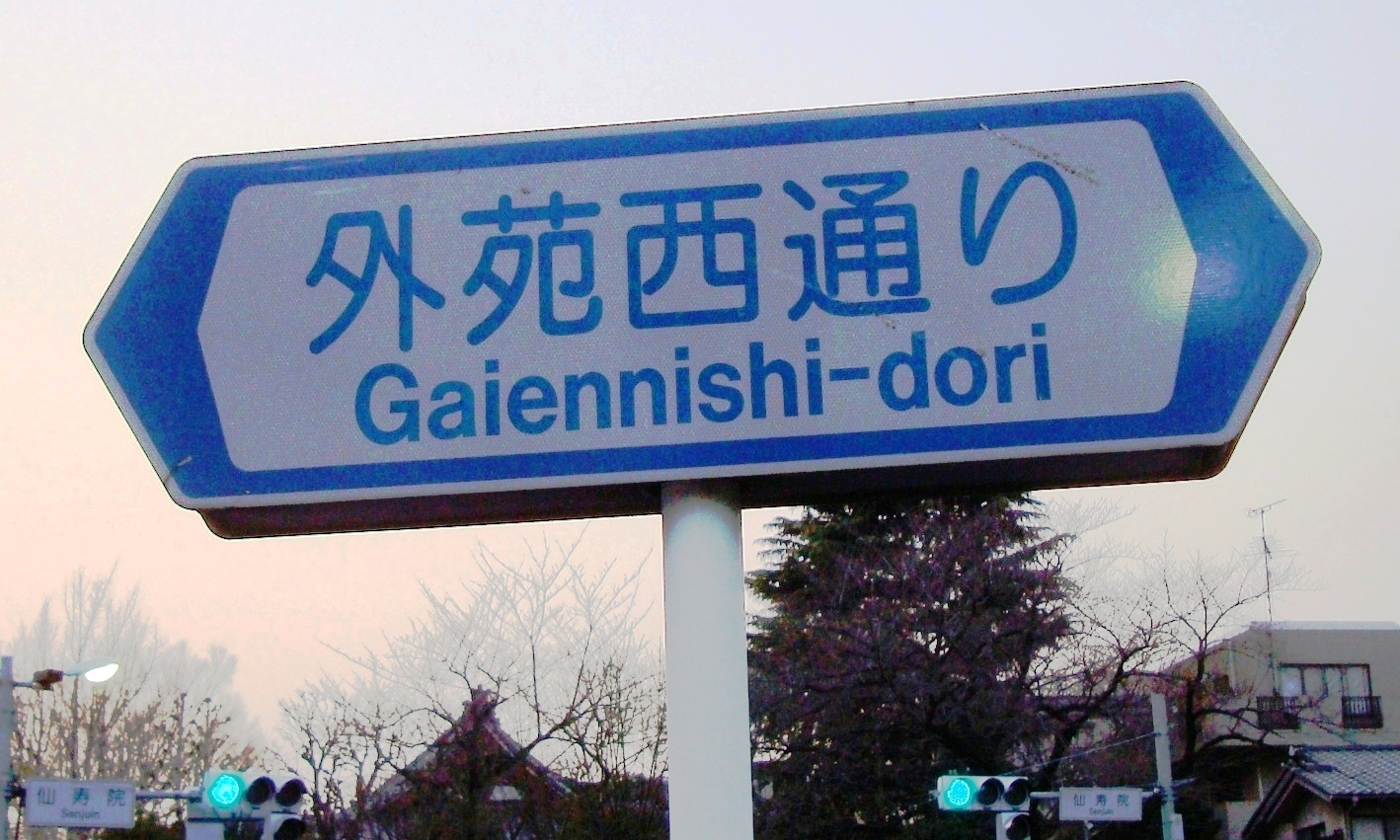 A street sign at Senju-in crossing indicating the Gaien-Nishi-Dori Avenue, Sendagaya, Tokyo